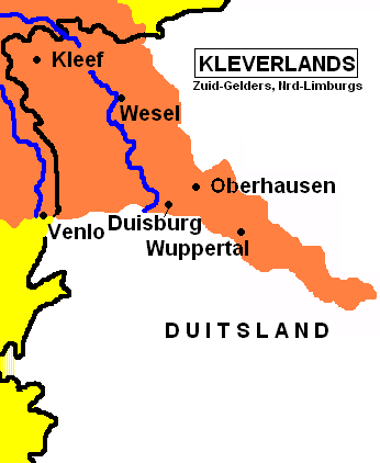 dialect of Kleve, Germany, dialect area